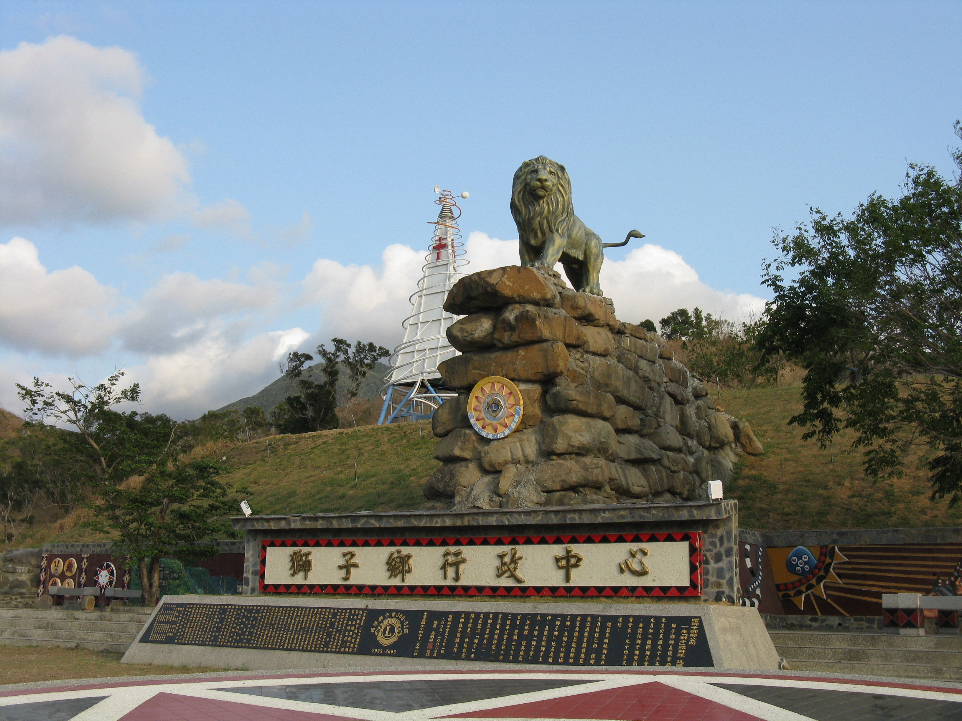 Shizi means "Lion".Showing a lion statue at Shiz Township Administration Center in Pingtung County,Taiwan.